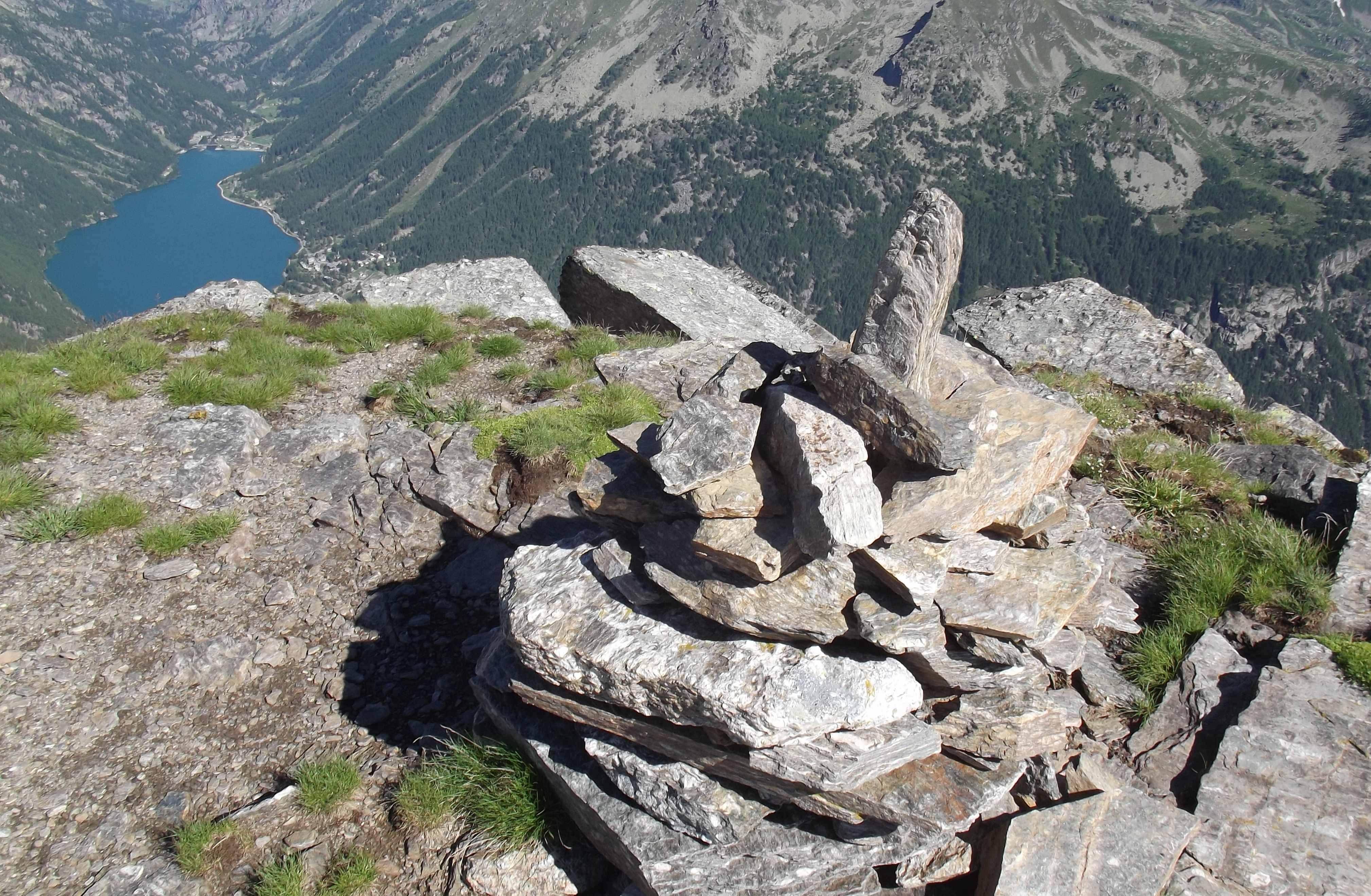 Ceresole lake from punta della Crocetta (Graian Alps, Italy)